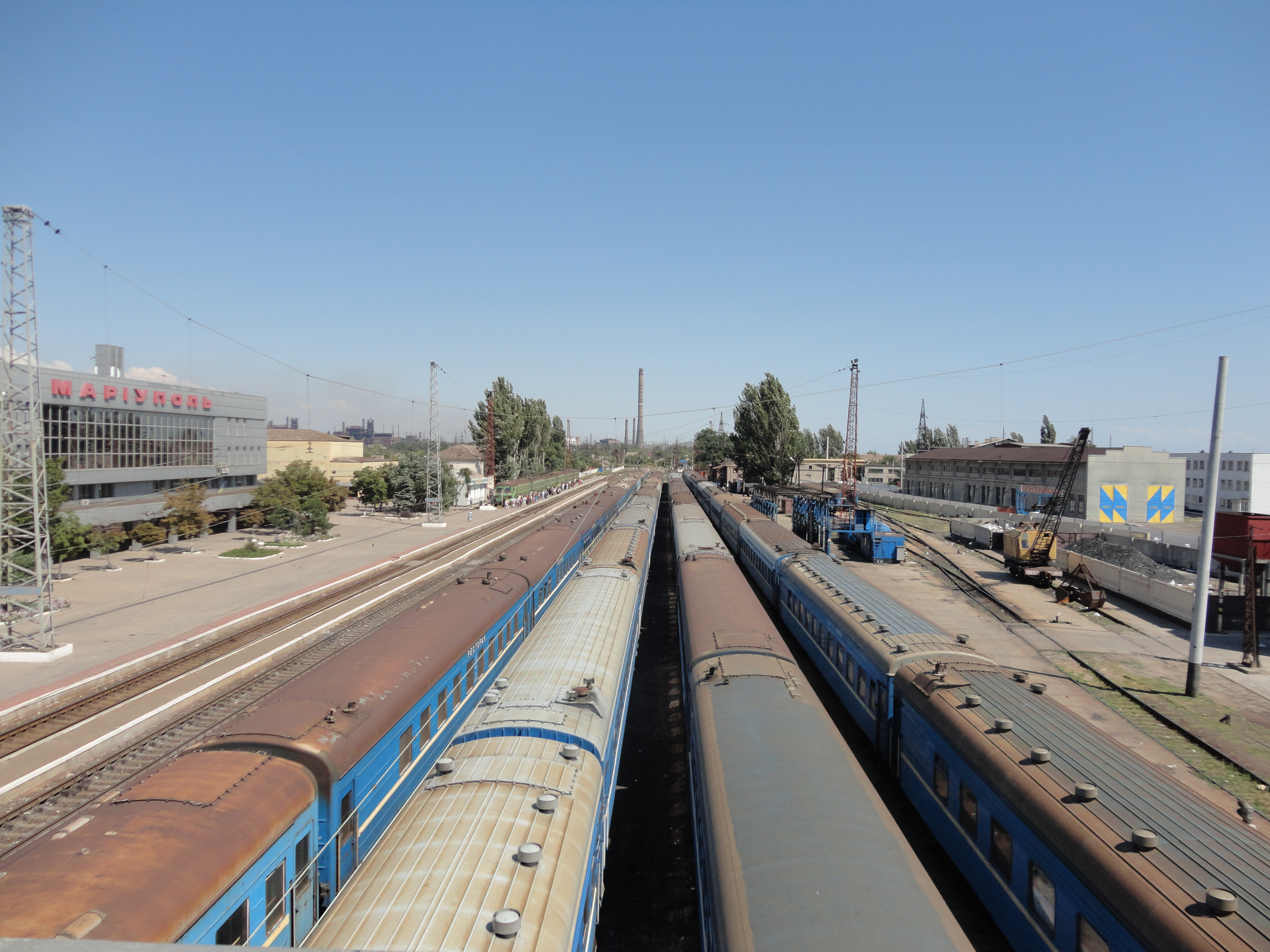 Mariupol,Train Station/Маріуполь, Залізничний вокзал